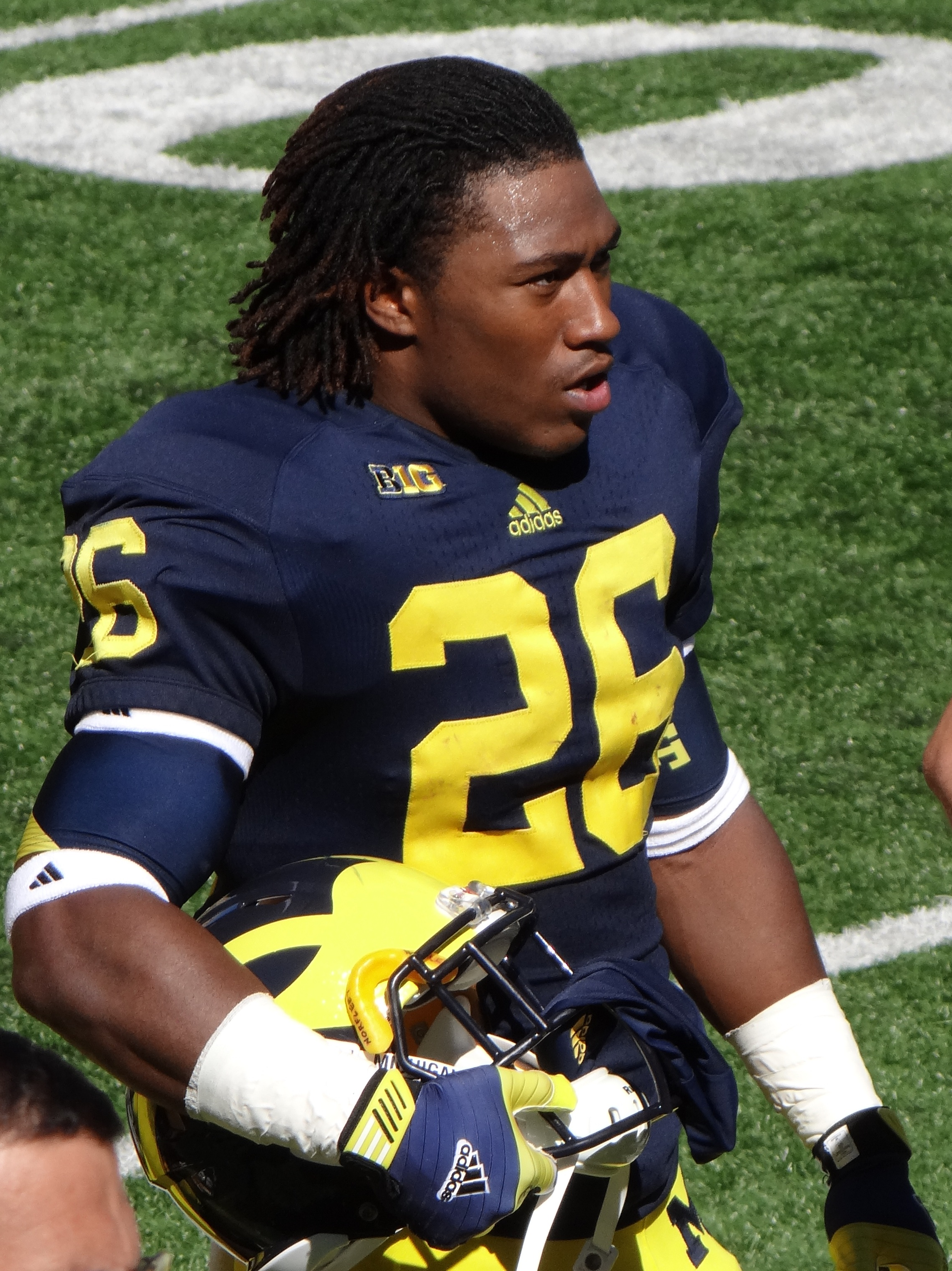 Michigan return specialist Dennis Norfleet